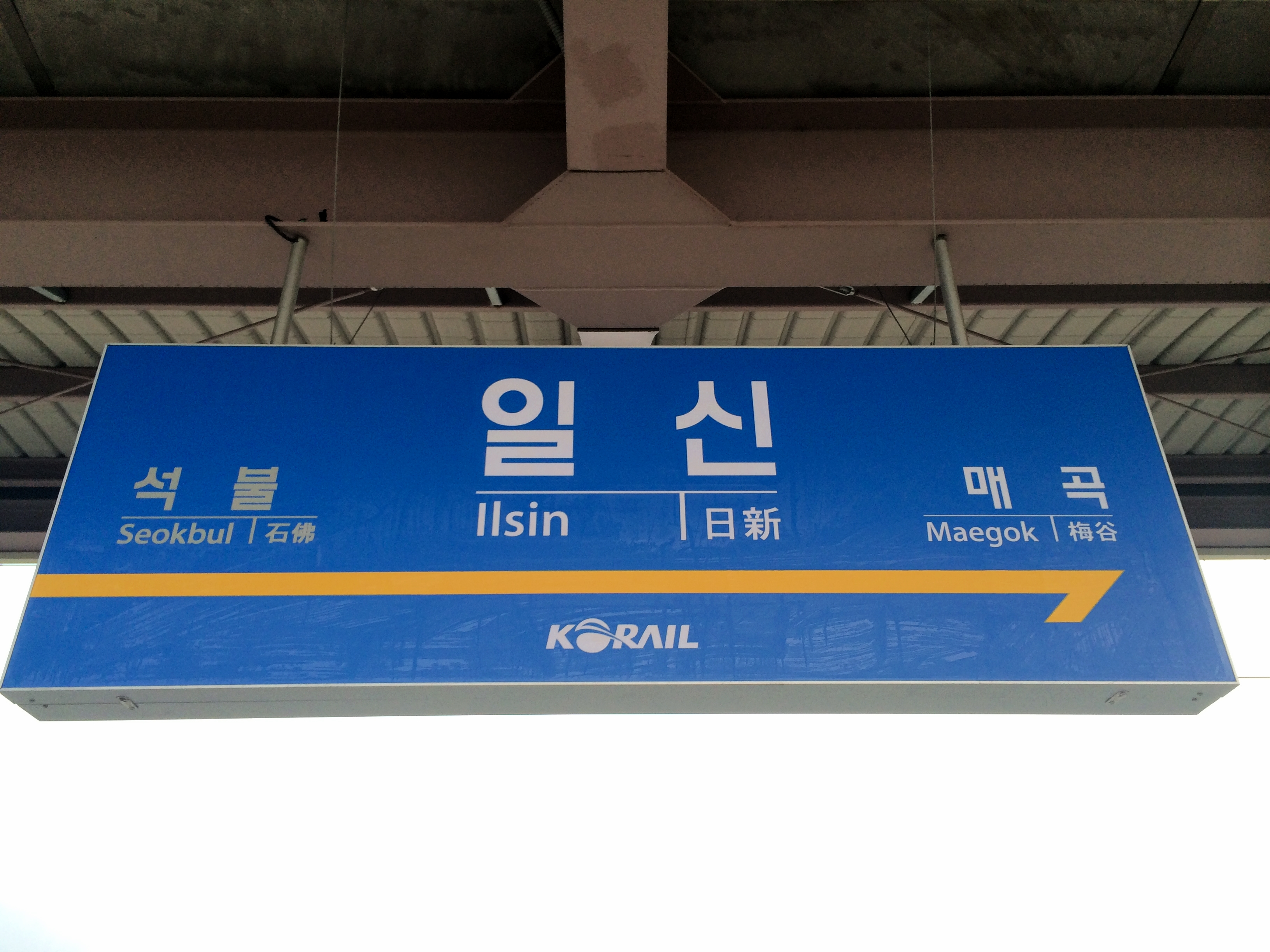 Basic form of running in board of Ilsin Station